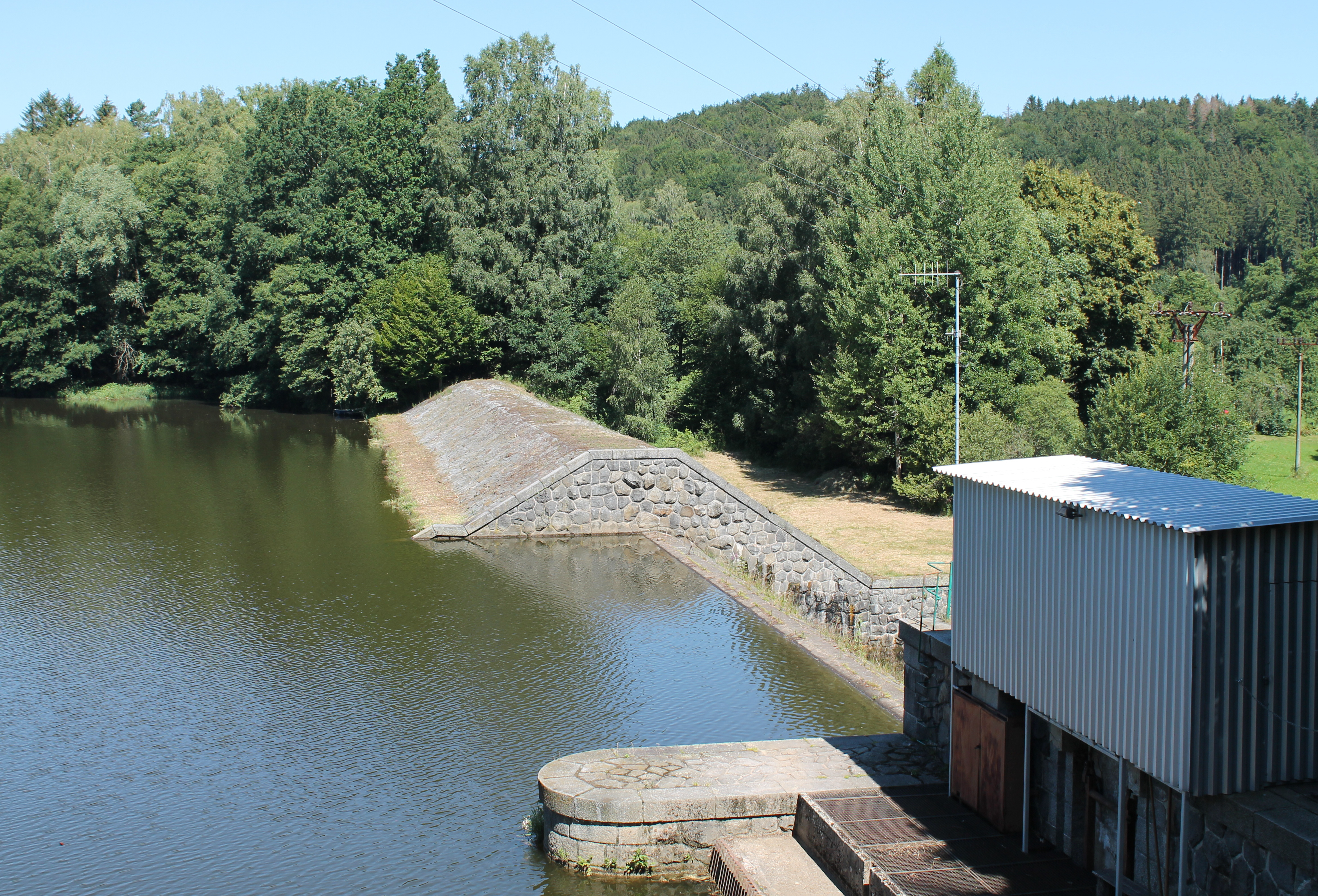 Padrty (Seč II) Dam, Hořelec, Bojanov / Seč, Chrudim District, Czech Republic